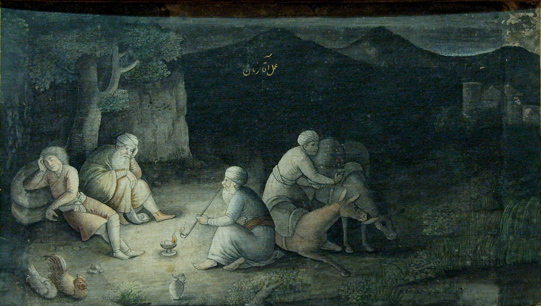 The Night Halt, page from an album of paintings and calligraphy most of whose pages are now stored at the Hermitage Museum in Saint Petersburg.